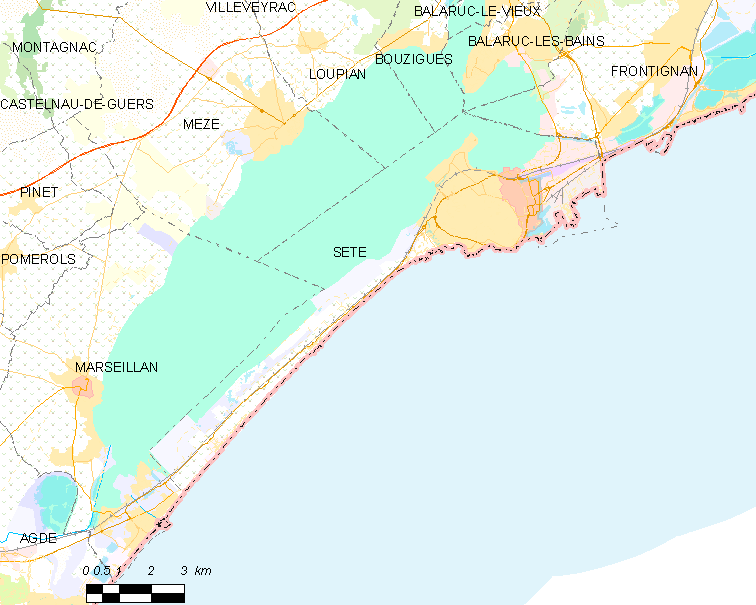 Map commune FR insee code 34301.png - Sète